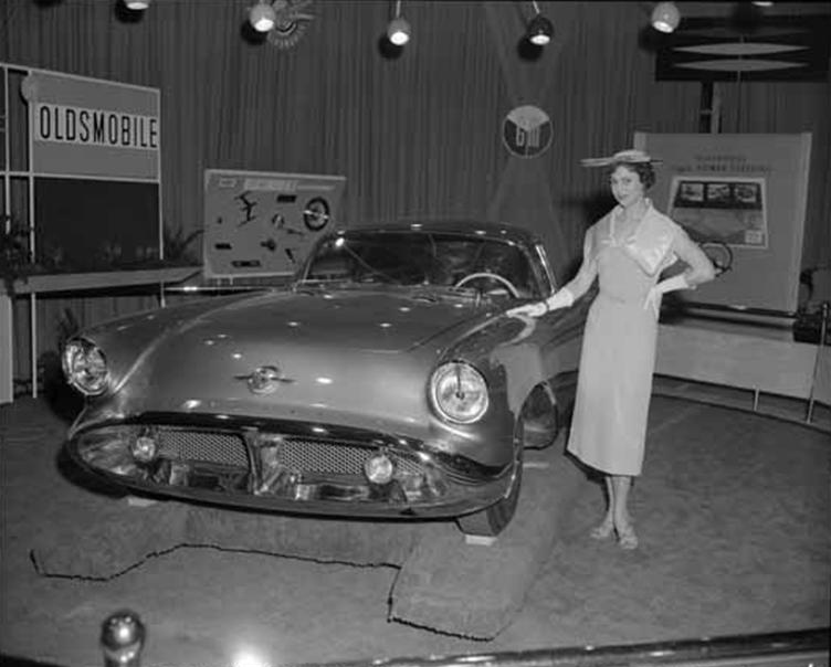 Model posing with Oldsmobile on display at the General Motors Motrorama 1955 (Pacific national Exhibition?), Vancouver, British Columbia, Canada.